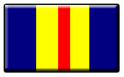 Tactical Recognition Flash of Corps of Electronics and Mechanical Engineers (EME) of Indian Army.